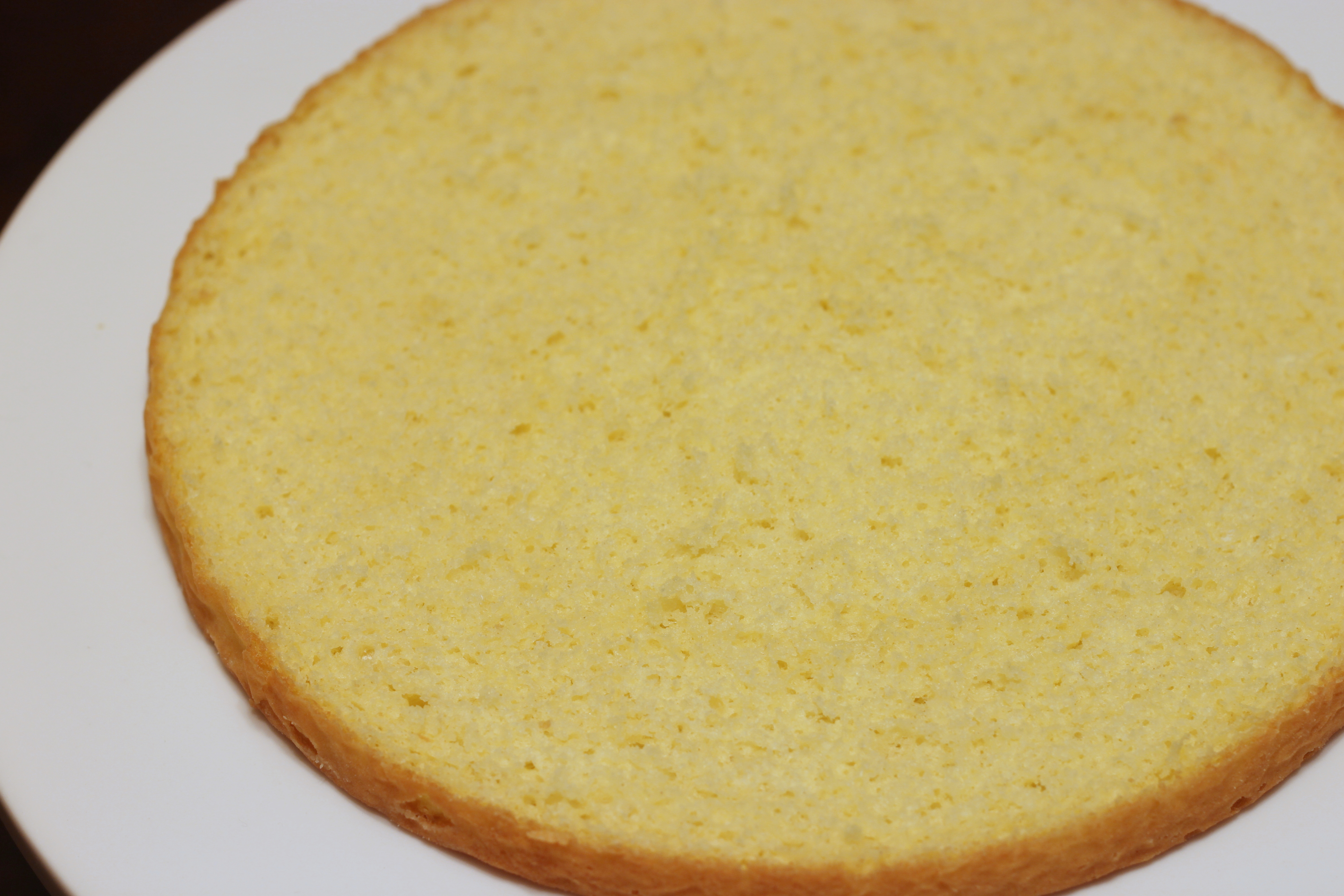 Cake recipe here